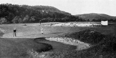 Punchbowl Green (12th) at A. W. Tillinghast's Shawnee-on-the-Delaware Golf Course